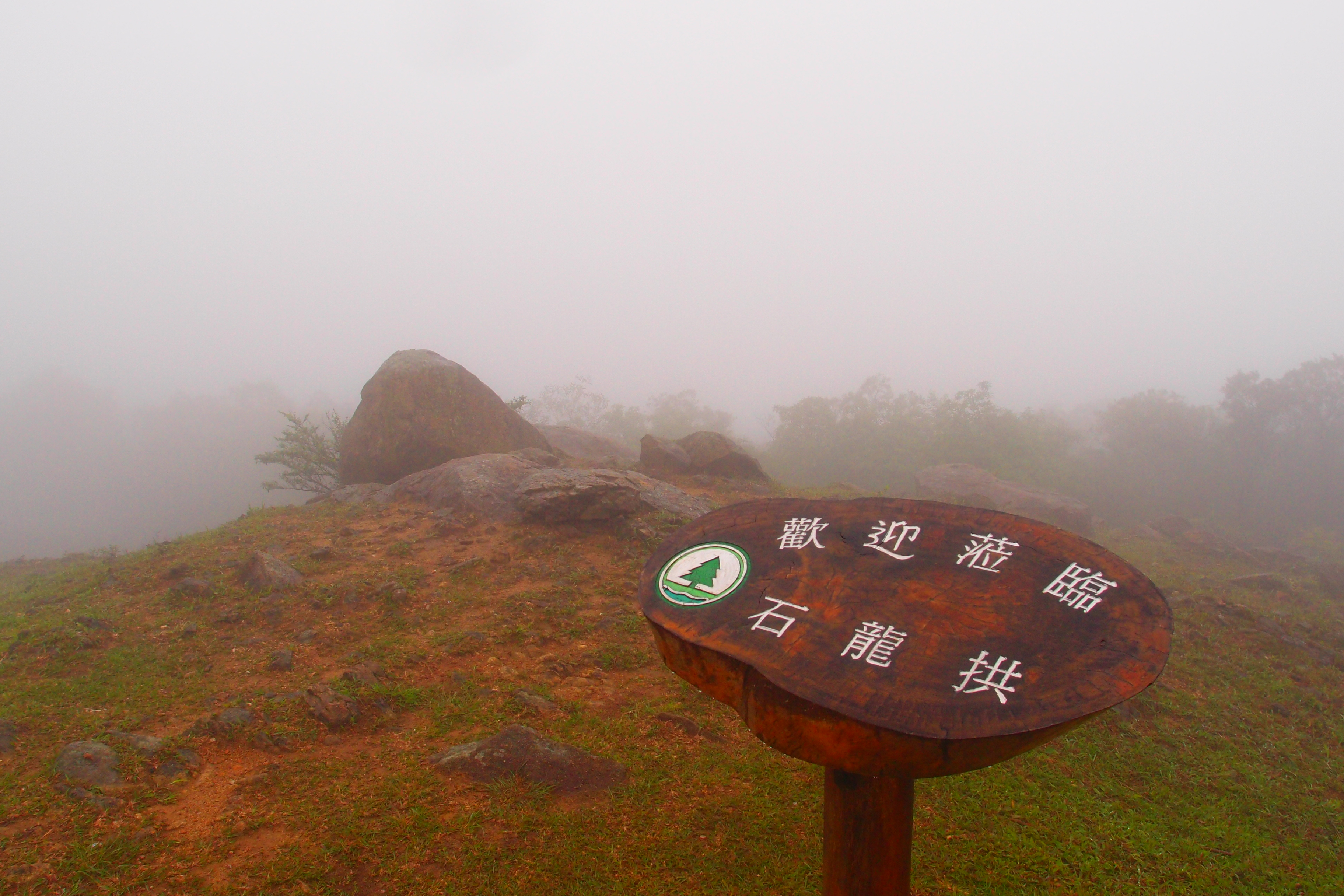 Shek Lung Kung